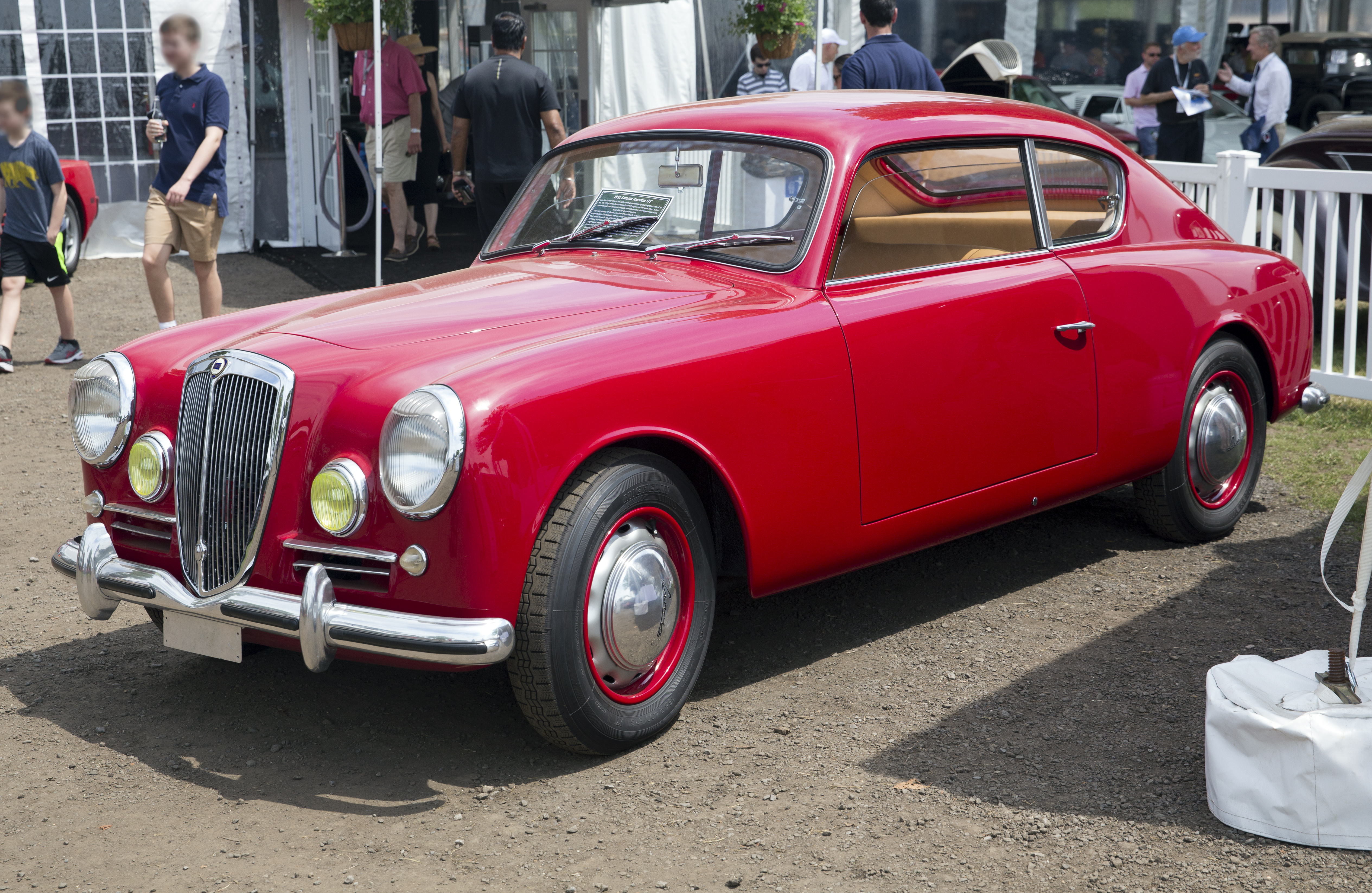 1951 Lancia Aurelia GT, first series car with 75hp 1991cc engine. One of the first 98 cars built, and one of only a handful with Viotti rather than Ghia bodywork, sadly resprayed red for deep pocketed numbskulls (before, it was a gorgeous Metallic Beige). Offered for sale for $219,000 at the 2018 Greenwich Concours d'Elegance.